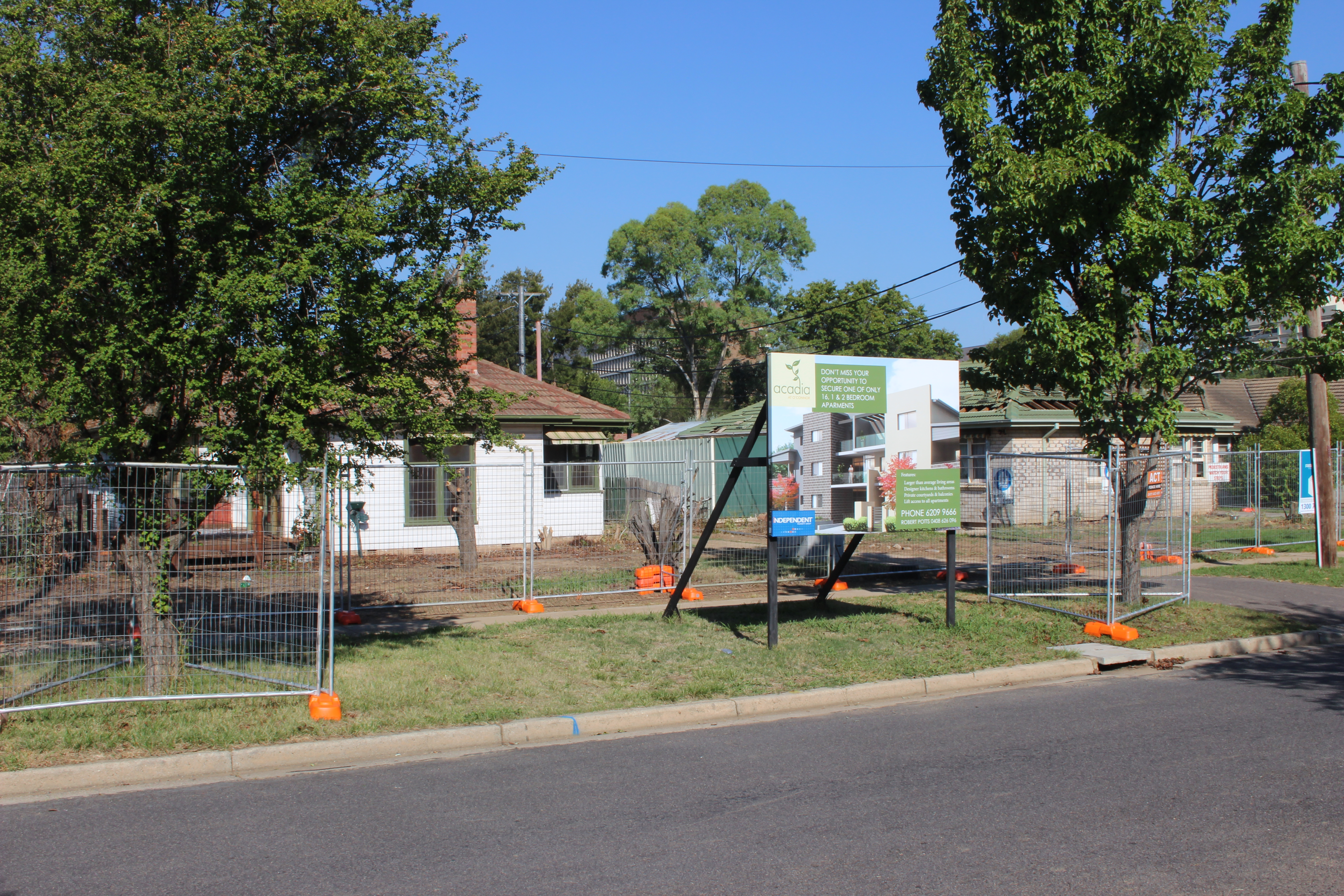 Houses being demolished in Berrigan Crescent, O'Connor